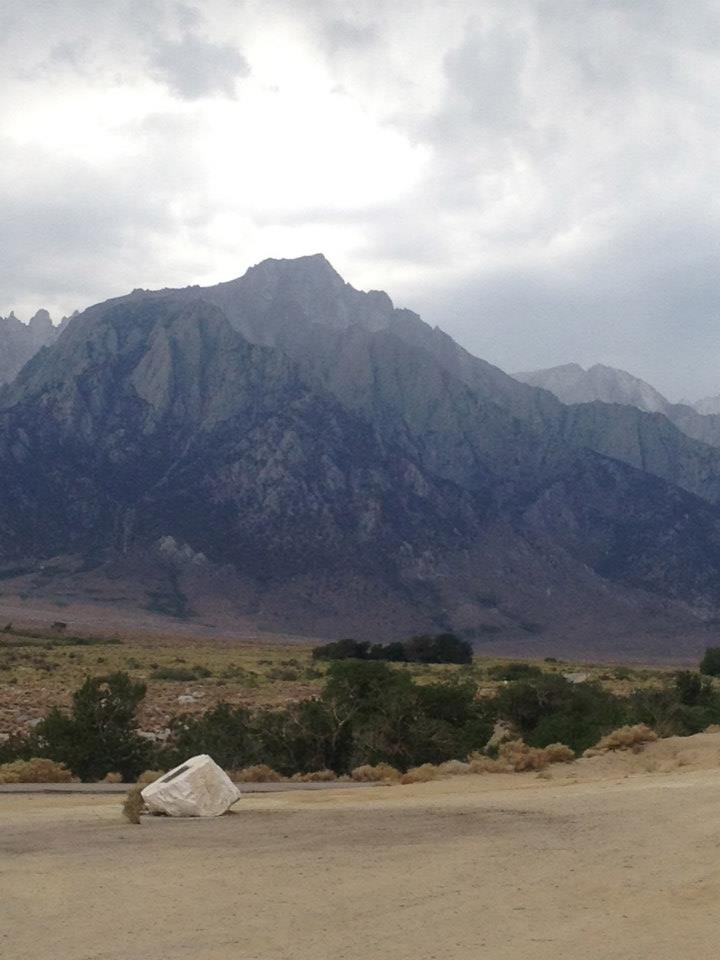 Lone Pine Peak: Lone Pine, CA shot from the East.